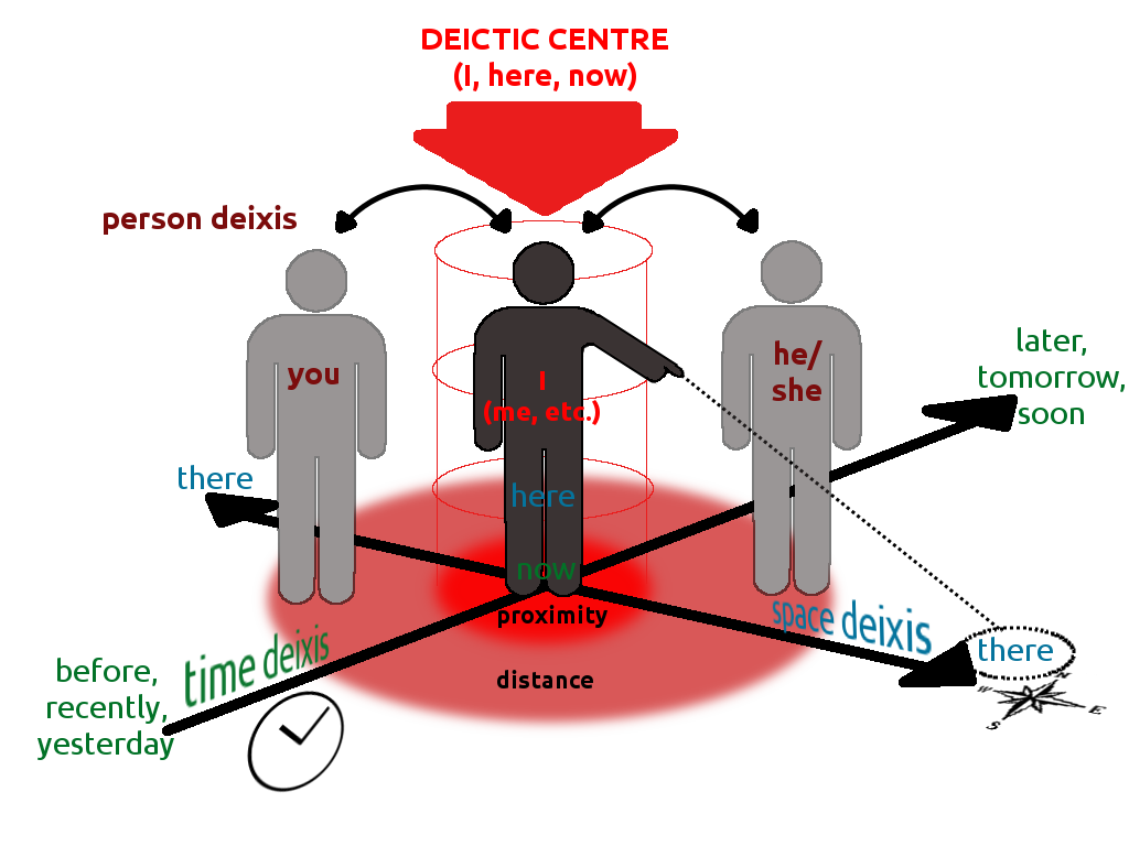 Scheme showing three kinds of deixis (person deixis, space deixis, time deixis), as well as the relation of proximity and distance of the deictic center.